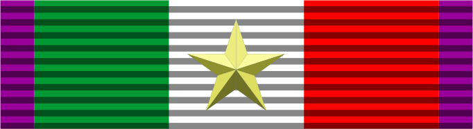 Ribbon bar of Medaglia d'oro ai benemeriti della Cultura e dell'Arte by Arturolorioli